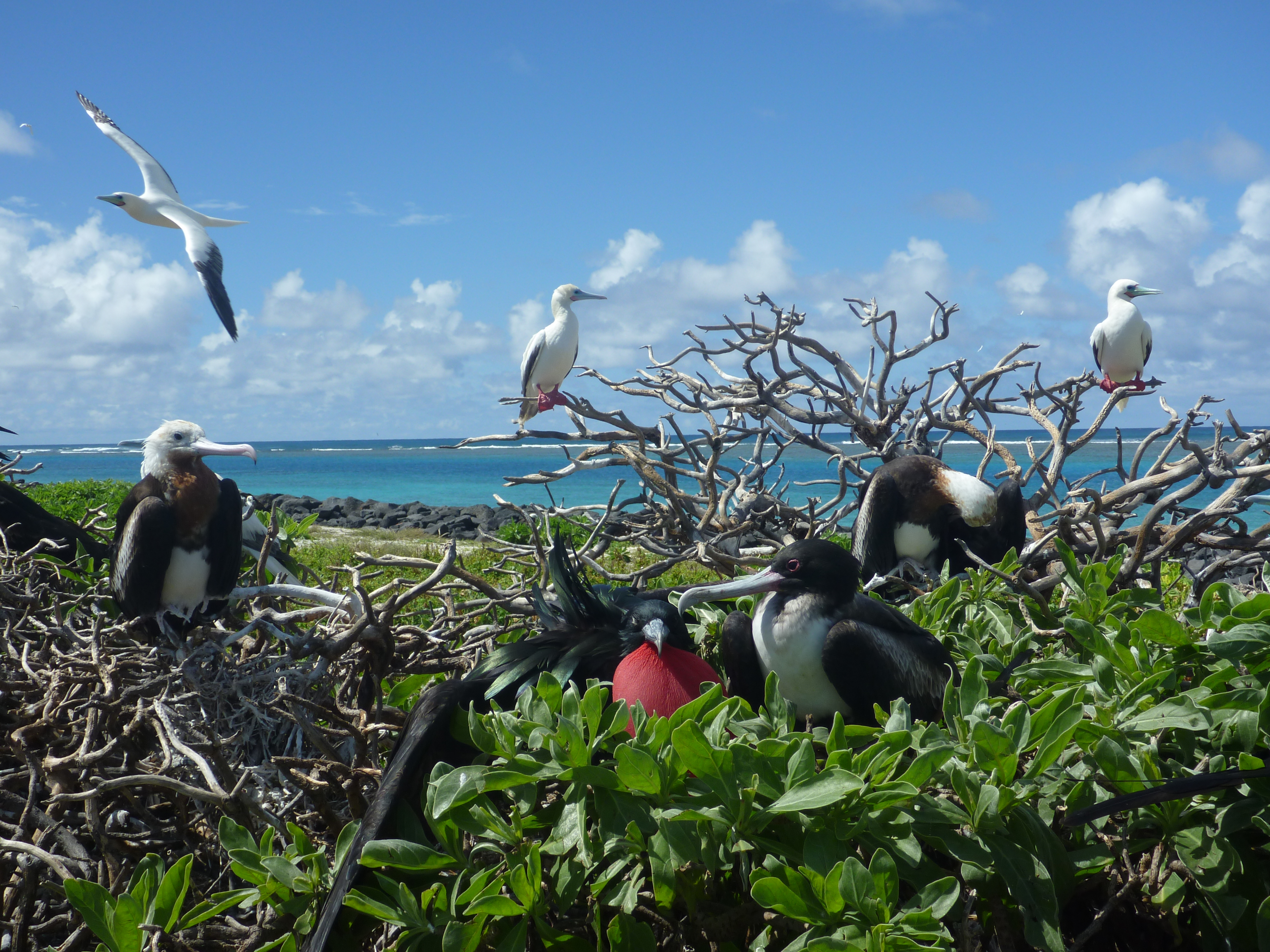 Great frigatebirds and red-footed boobies at Tern Island. Photo by FWS Volunteer Sarah Youngren. Kanemiloha'i/French Frigate Shoals, Hawaiian Island NWR, Hawaii